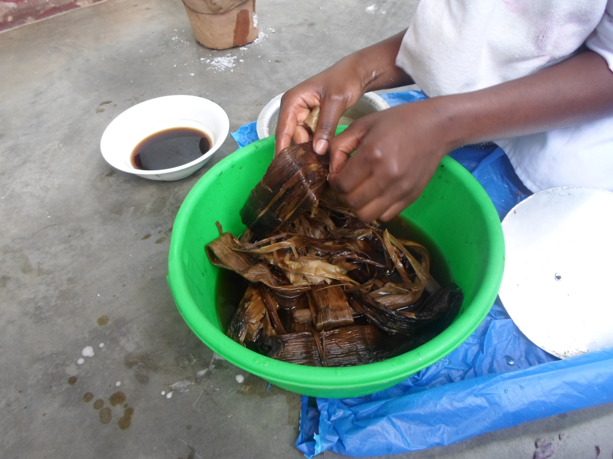 Malewa in preparation process This is an image of food from Uganda